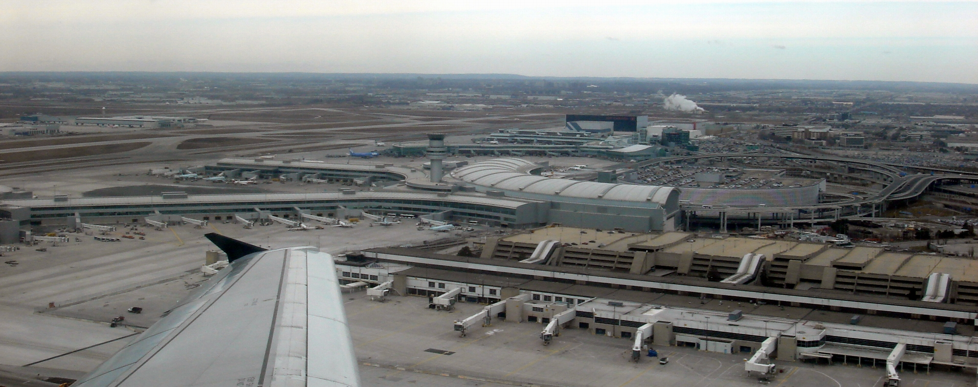 Toronto Peason Airport – aerial view (Terminal 2 n foreground, terminal 3 in backgroound)